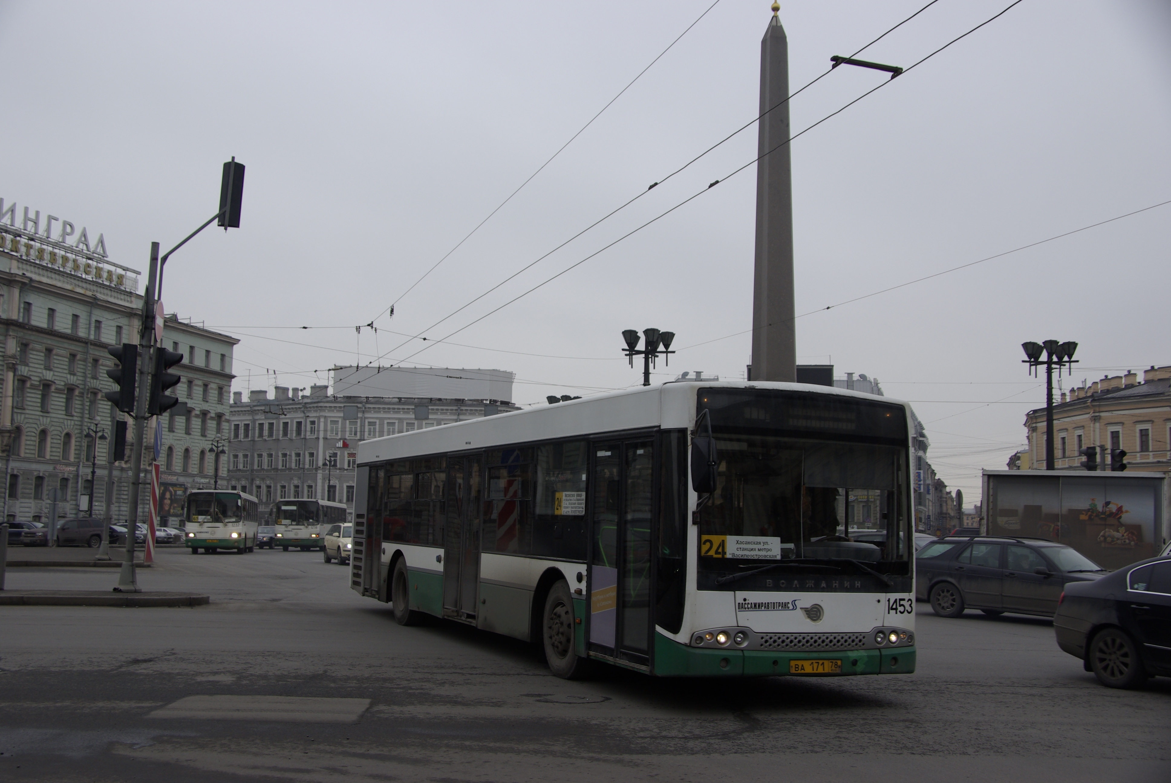 Tsentralny District, St Petersburg, Russia